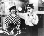 Scene from the Chaplin film The Fireman (1916) with Edna Purviance